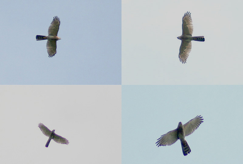 Shikra Accipiter badius in Kolkata, West Bengal, India.